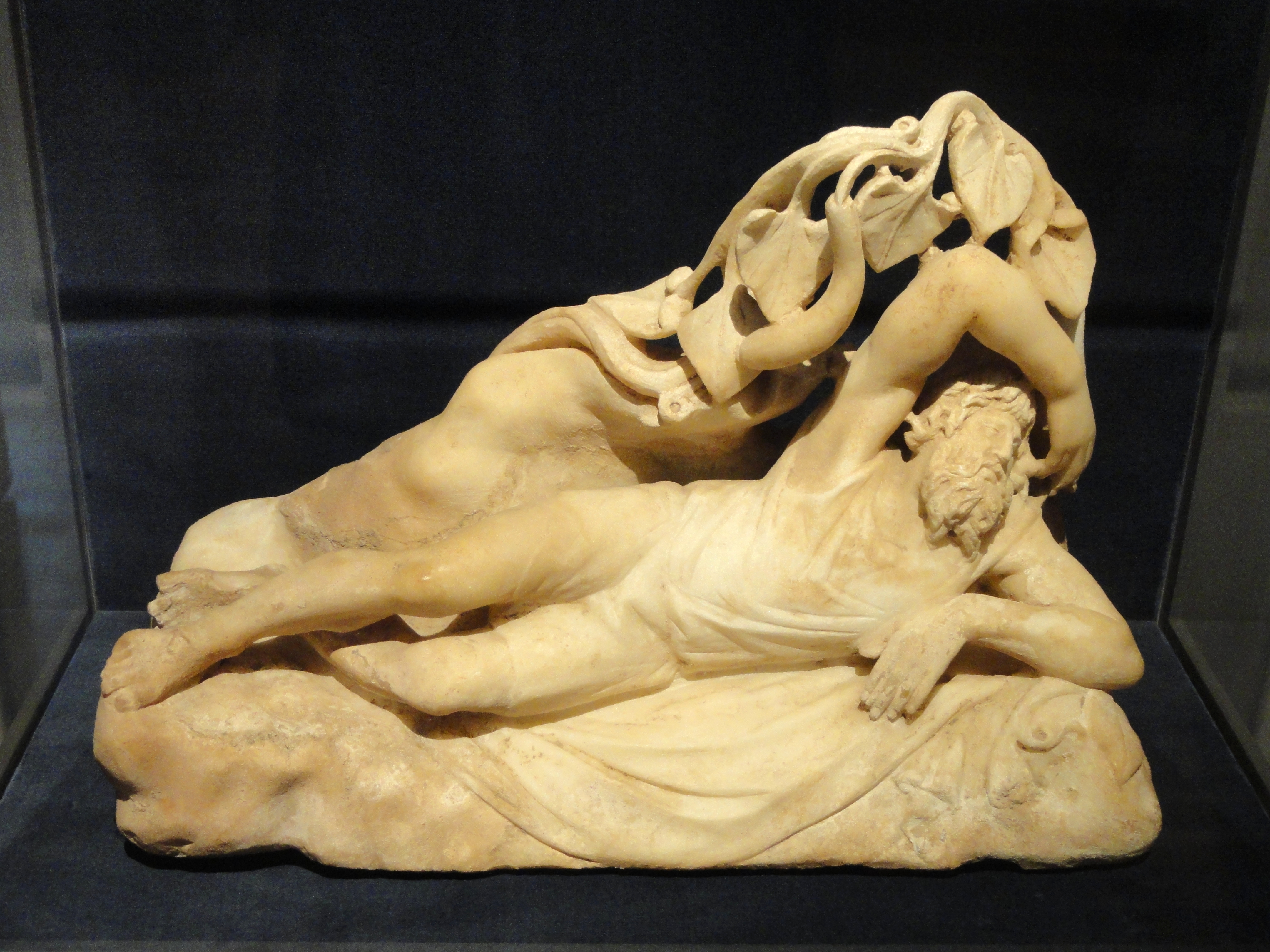 Exhibit in the Cleveland Museum of Art, Cleveland, Ohio, USA. This artwork is old enough so that it is in the public domain.